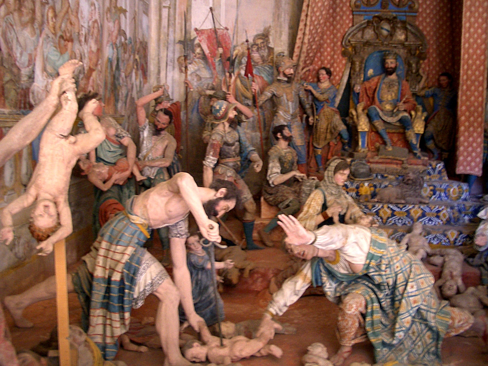 Giacomo Paracca, 'The Slaughter of the Innocents', Polychrome clay sculptures, ca. 1587, Italy, Sacro Monte di Varallo (VC), Chapel XI